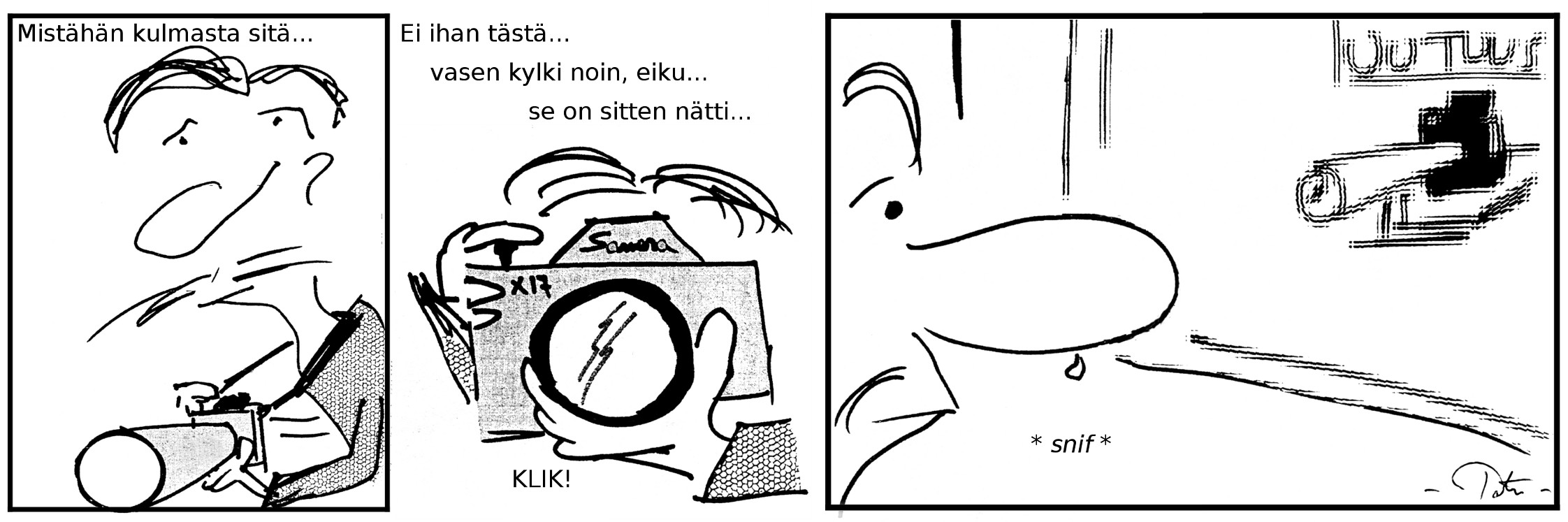 Photography Comics in Lappeenranta, Finland